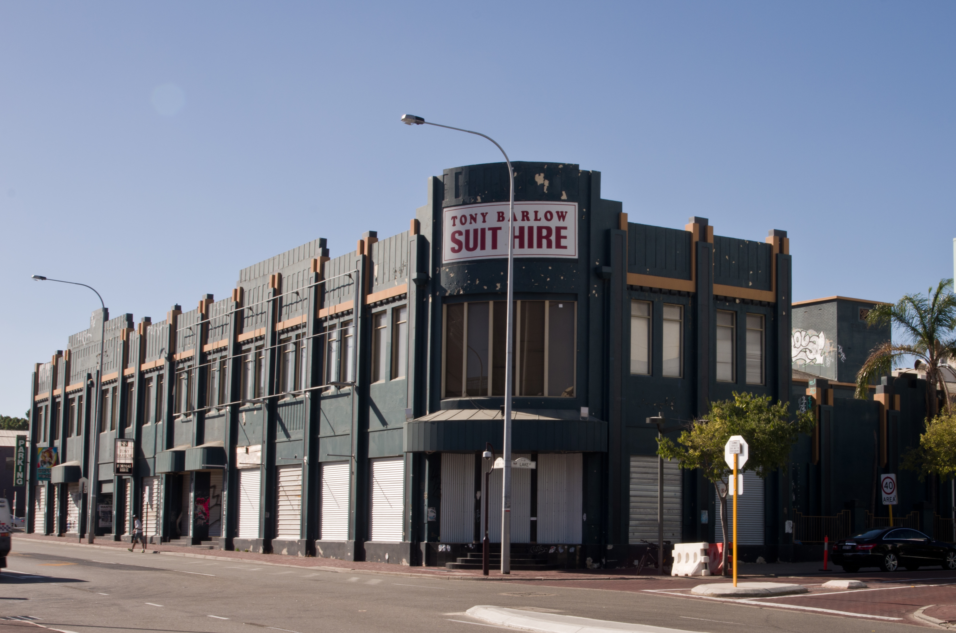 Michelides Tobacco Factory, the building was later known as the Peters Ice Cream Factory and the Tony Barlow Menswear Building. Its situated at the corner of Roe and Lake street in Northbridge Western Australia